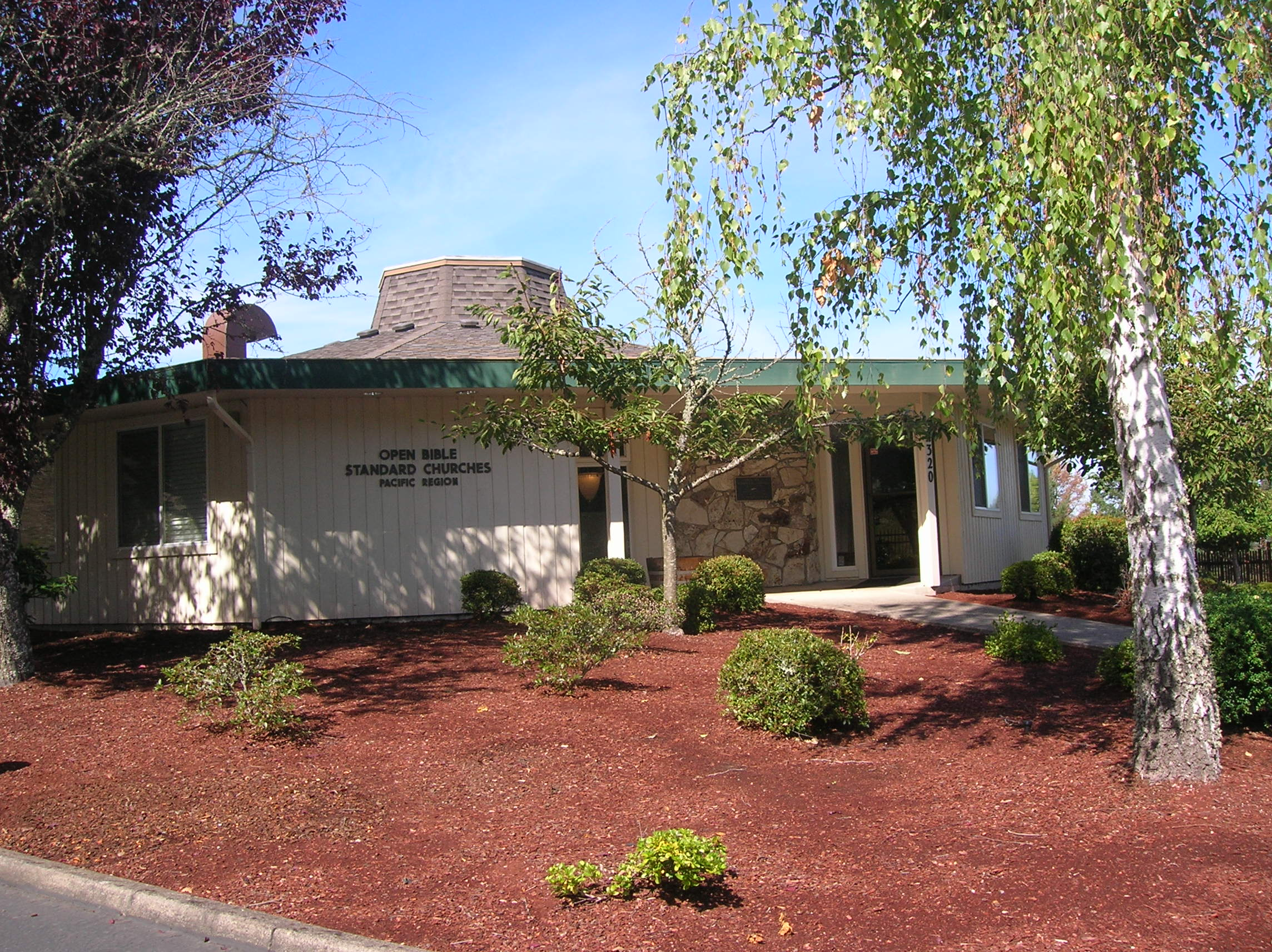 Open Bible Standard Pacific Office in Eugene near Eugene Bible College.